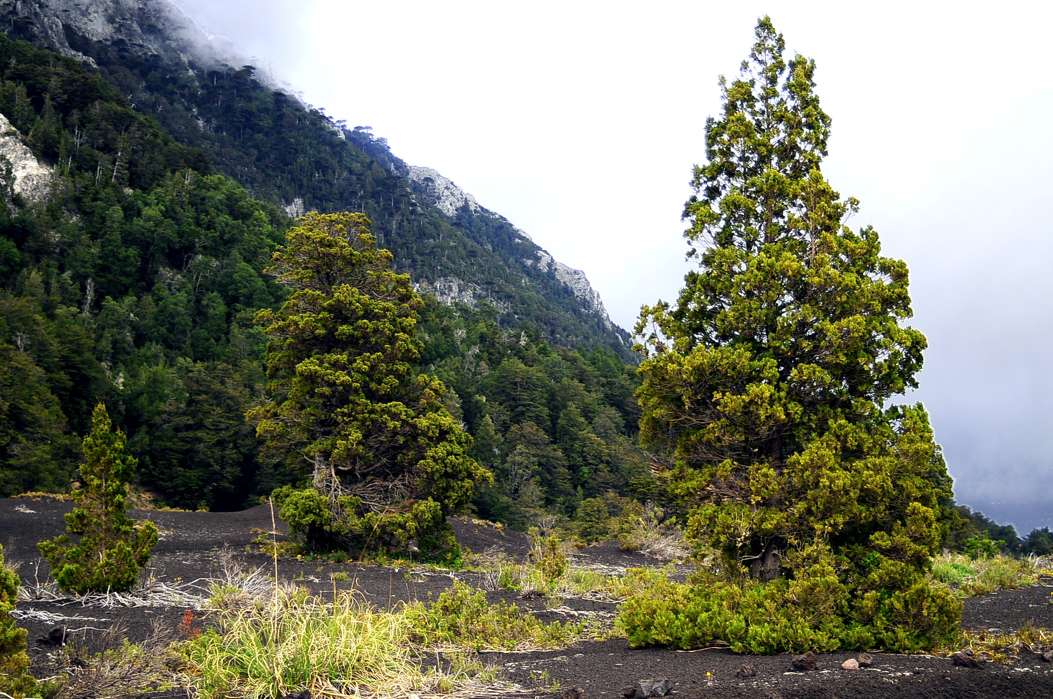 Mountain cypresses at Truful-Truful. Conguillío National Park, Araucanía, Chile